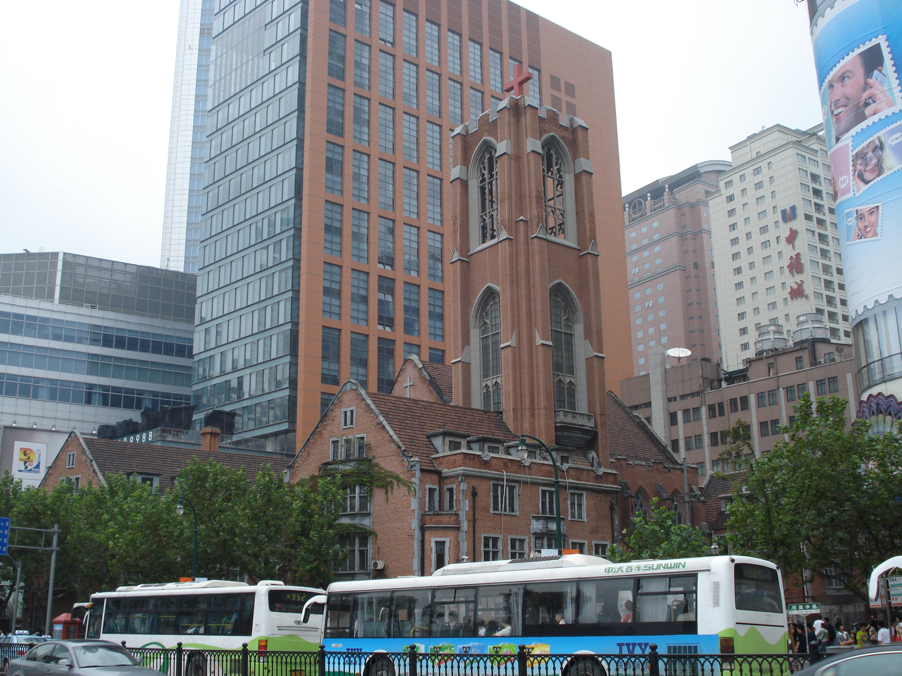 Shanghai - protestant Moore Memorial Church built 1929-1931